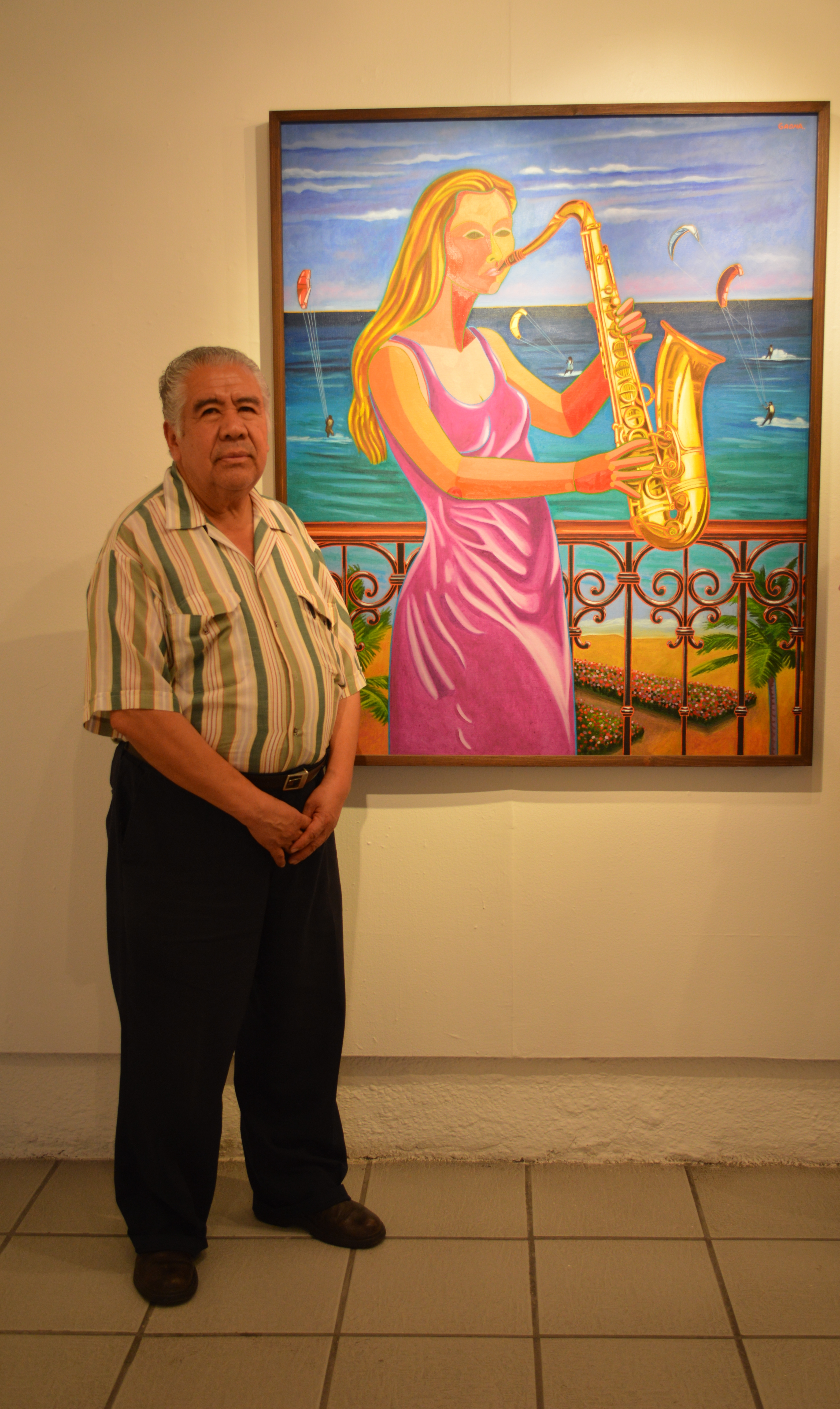 Artist José Julio Gaona Adame with work on display at the Salon de la Plastica Mexicana in Mexico City